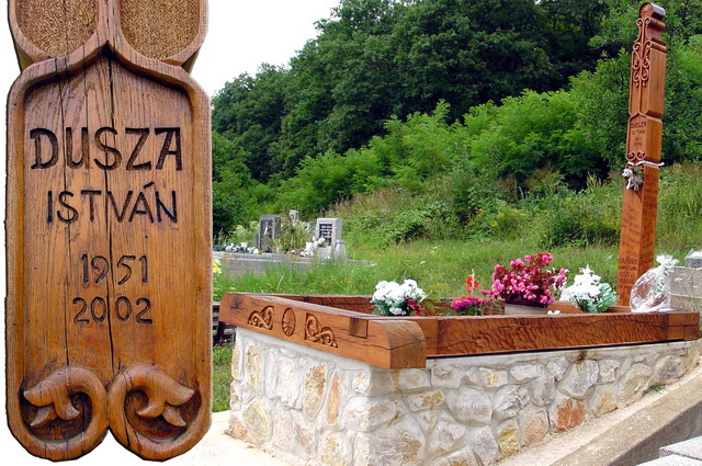 Dusza István's grave in a cemetery of Gemerská Hôrka [Gömörhorka].